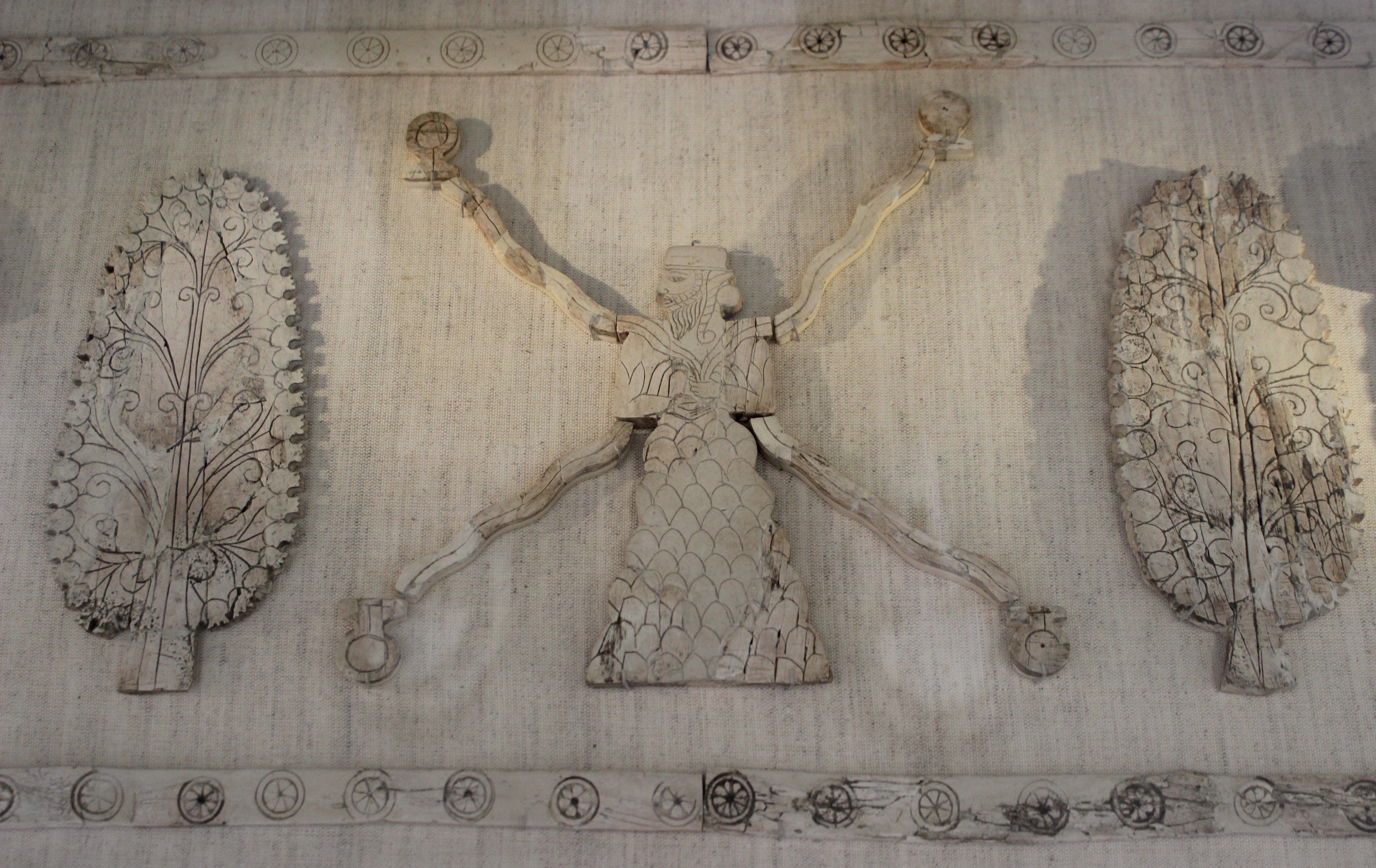 Ivory (Inlay) : mountain god and streams. Middle Assyrian Period (14th century B.C.). Found in the New Palace of Assur (Qalaat Sherqat). Vorderasiatisches Museum of Berlin.